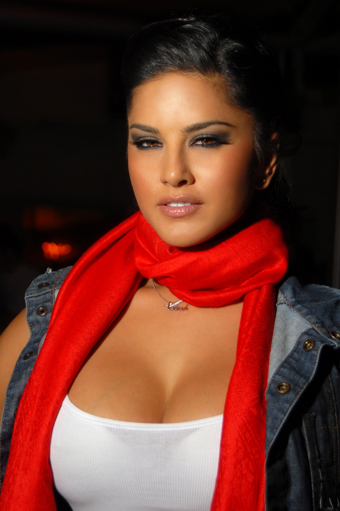 Sunny Leone attending the performance of Evan Seinfeld and the Spyders at Les Duex, Hollywood, CA on October 27, 2009 - Photo by Glenn Francis of